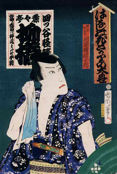 Gonjūrō Kawarasaki I as Tamiya Iemon in Tōkaidō Yotsuya Kaidan, depicted in a woodblock print Hanashi no Hana-sakari no Ōyose, by Kunichika Toyohara